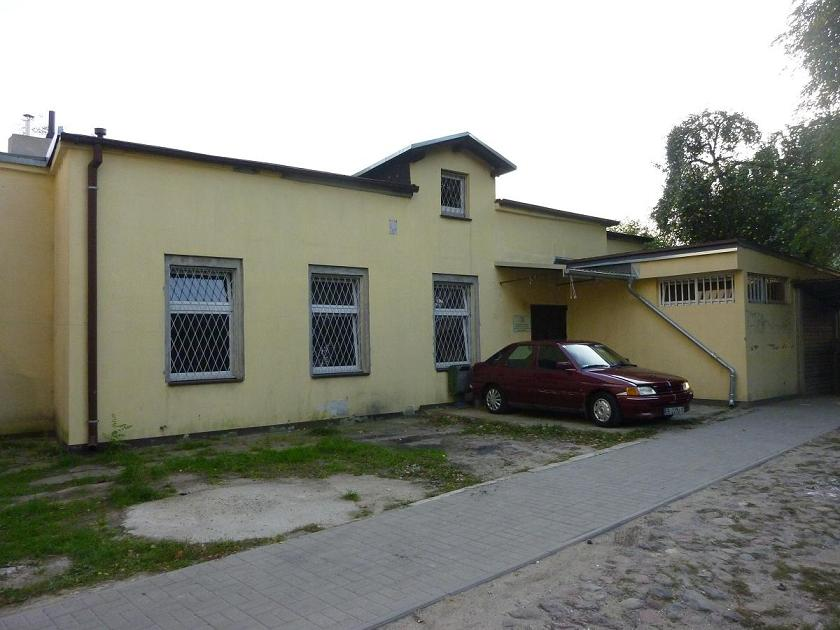 Cathedral Chapel of the Old Catholic Church in Republic of Poland - Lodz (Gdańska street 143). The new headquarters in 2012.